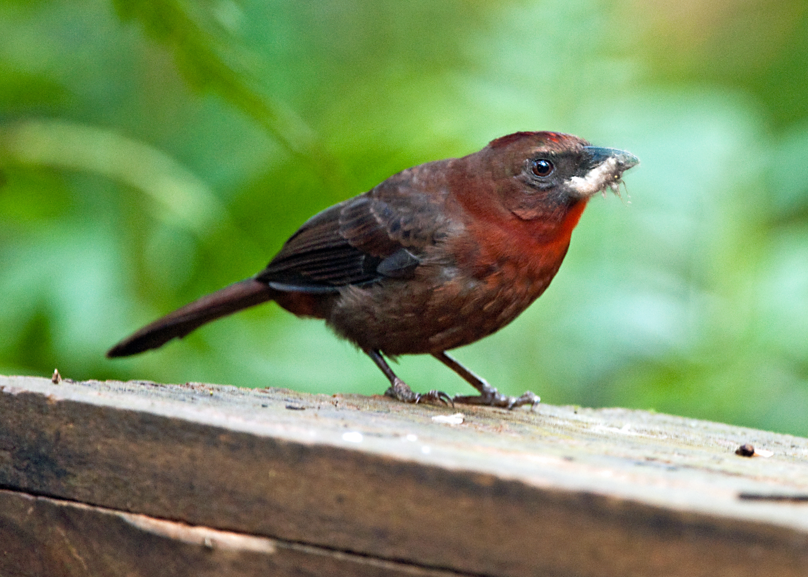 A male Red-throated Ant-tanager near Rancho Naturalista, Cordillera de Talamanca, Costa Rica.